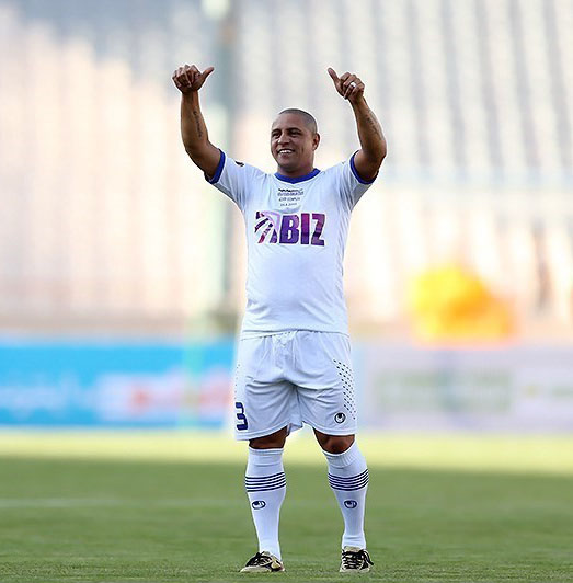 Roberto Carlos, a player of the world soccer stars team in Tehran for a charity football match in Iran.